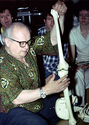 This photo depicts Moshe Feldenkrais, creator of the Feldenkrais Method, demonstrating the structure and function of the leg.